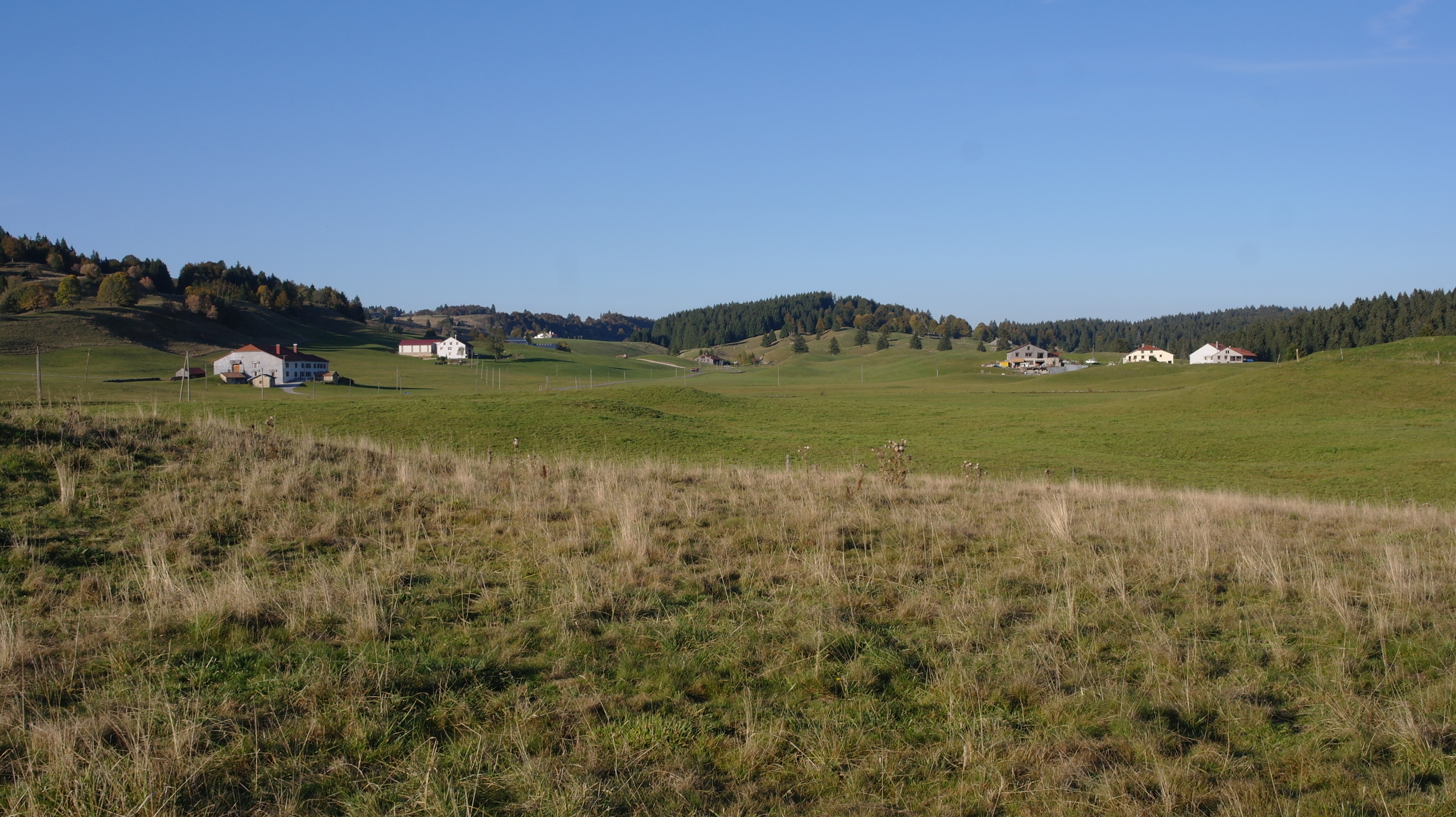 View of the north of the commune of Bellecombe (Jura, Franche-Comté, France)